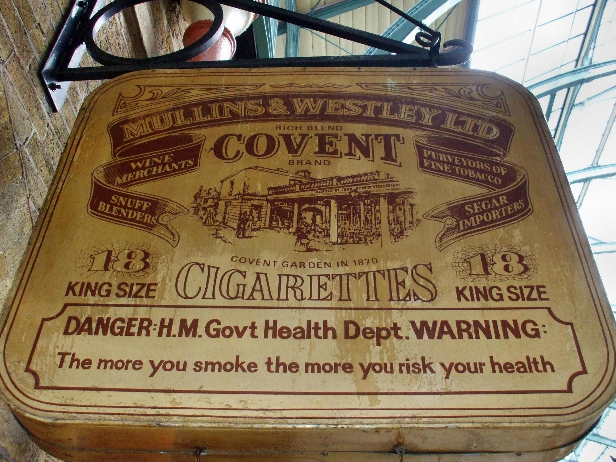 Mullins & Westley Shop Sign